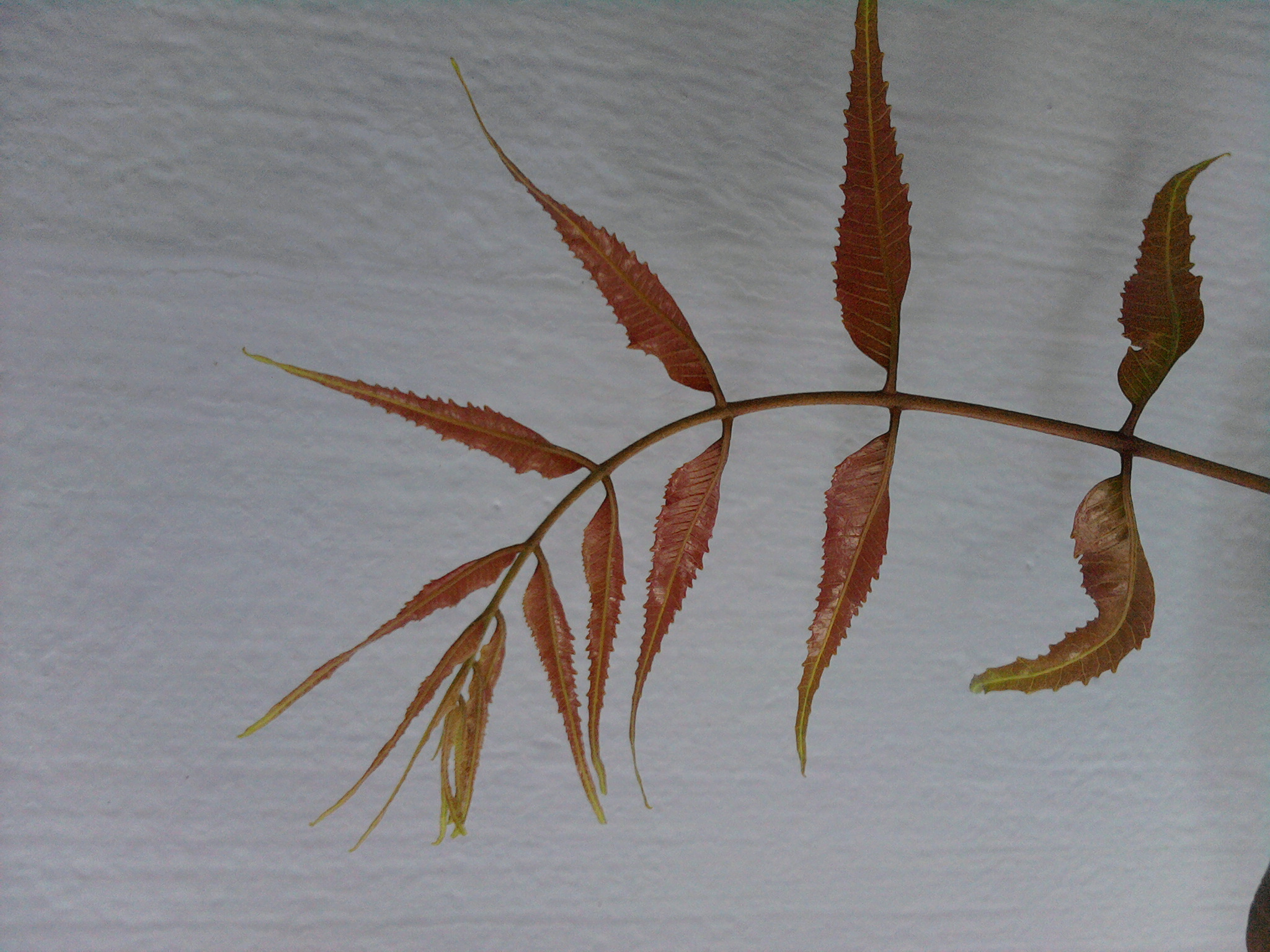 it is young neem leaf